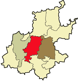 Map of the East Rand in Gauteng Province, South Afirca.